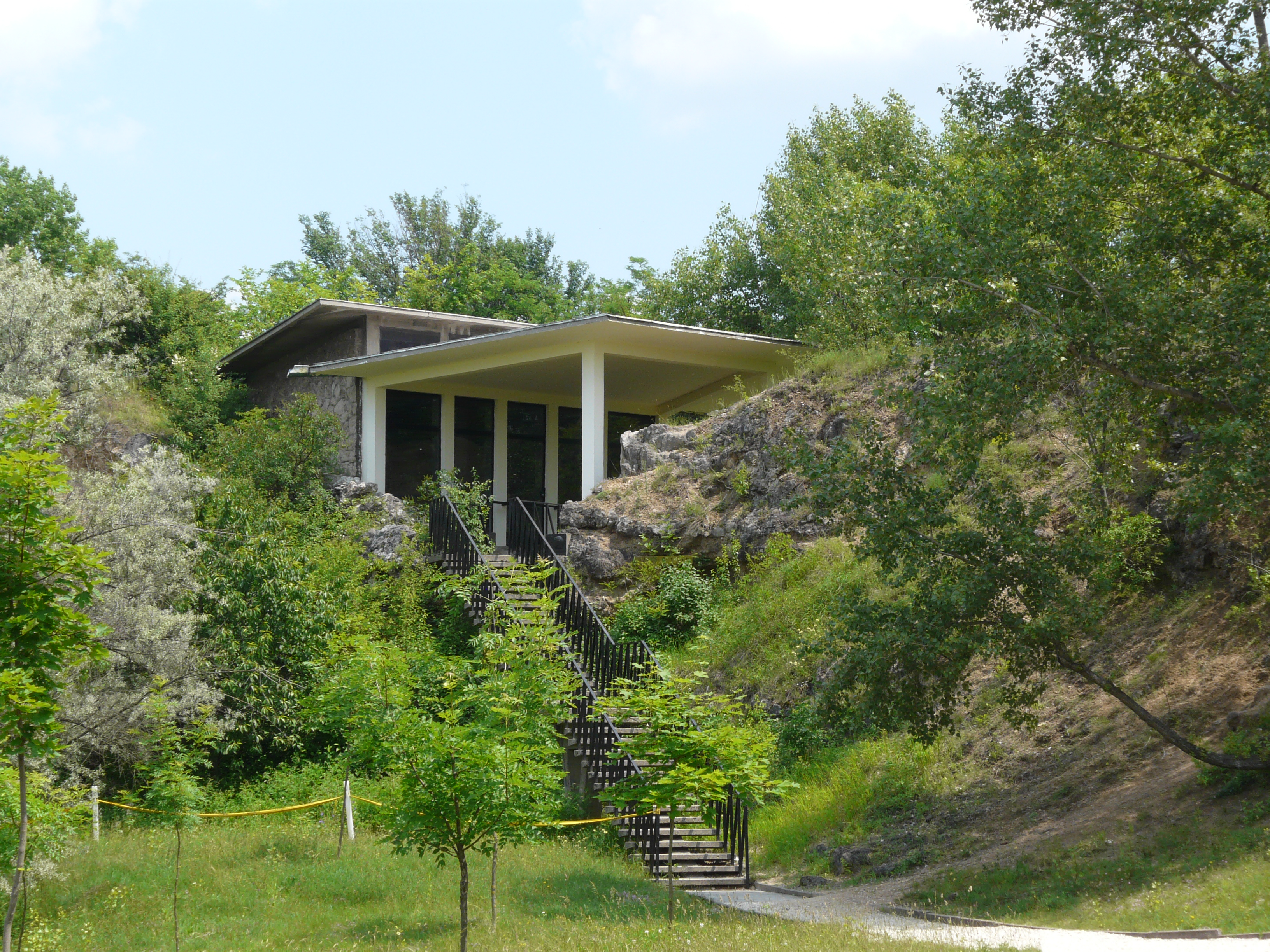 Vértesszőlős - paleolitic location - site I - view